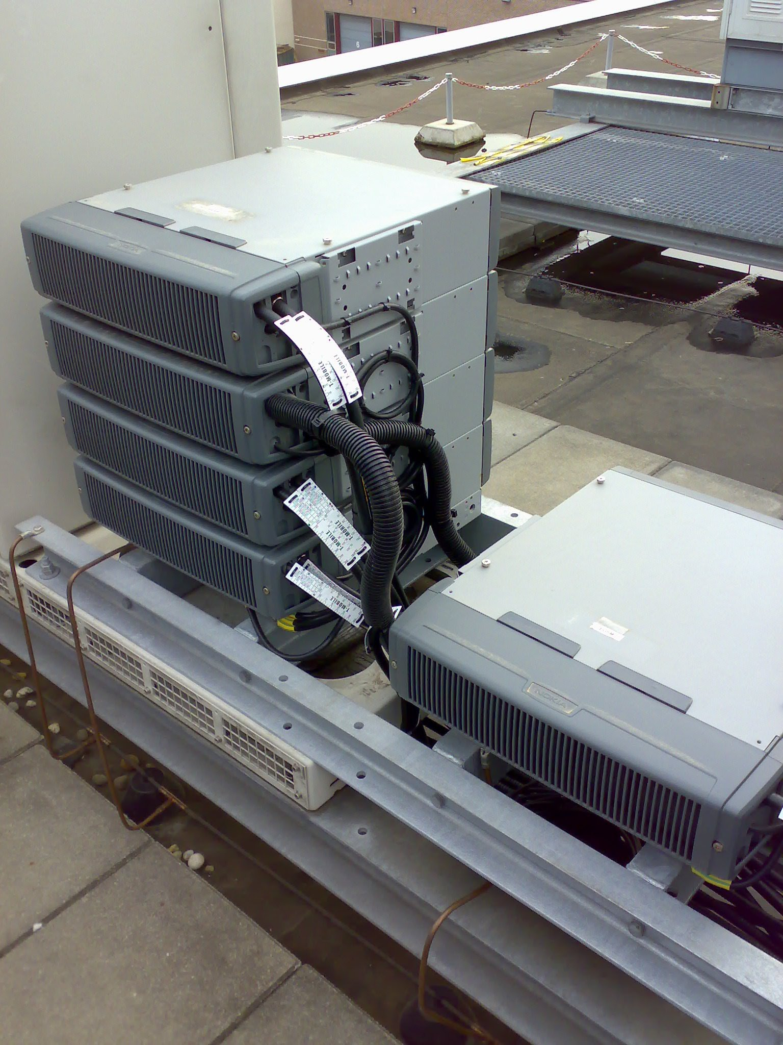 Nokia FlexiBTS 3G or GSM BTS on top of a building in Katwijk (NL)